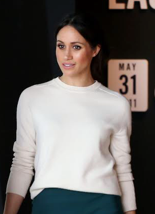 Prince Harry and Ms. Markle visit Titanic Belfast